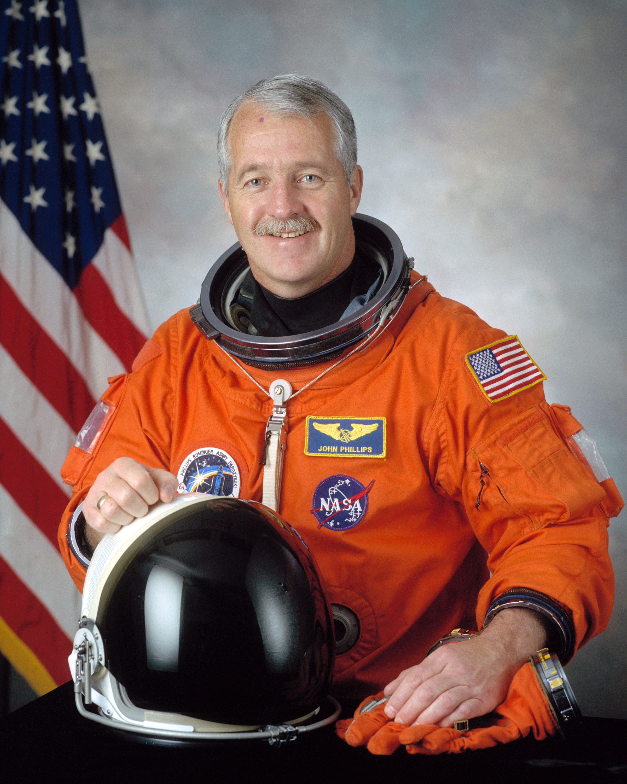 Astronaut John L. Phillips